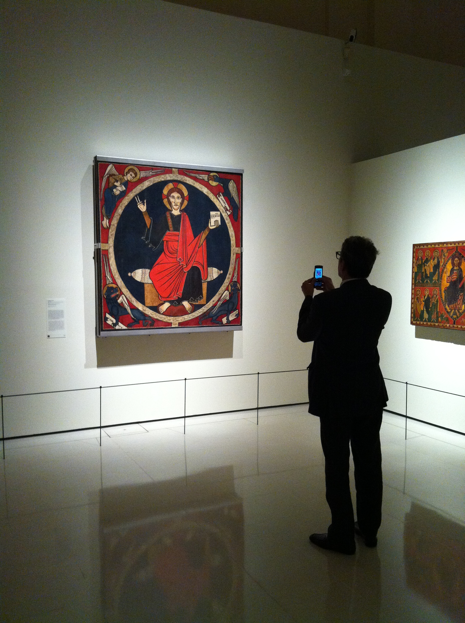 Reopening of the Romanesque collection of MNAC, Museu Nacional d'Art de Catalunya, in Barcelona